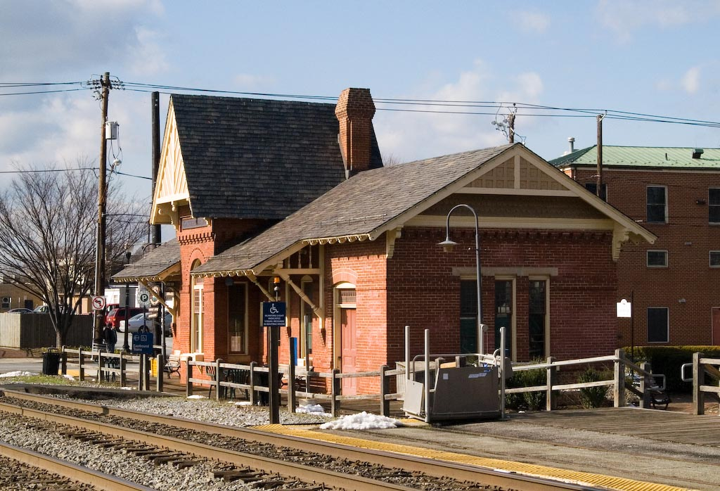 Gaithersburg, Maryland Train Station